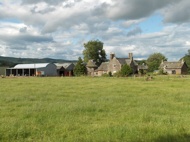 Strageath Mill. One of a few former mills on the banks of the Earn in the vicinity.